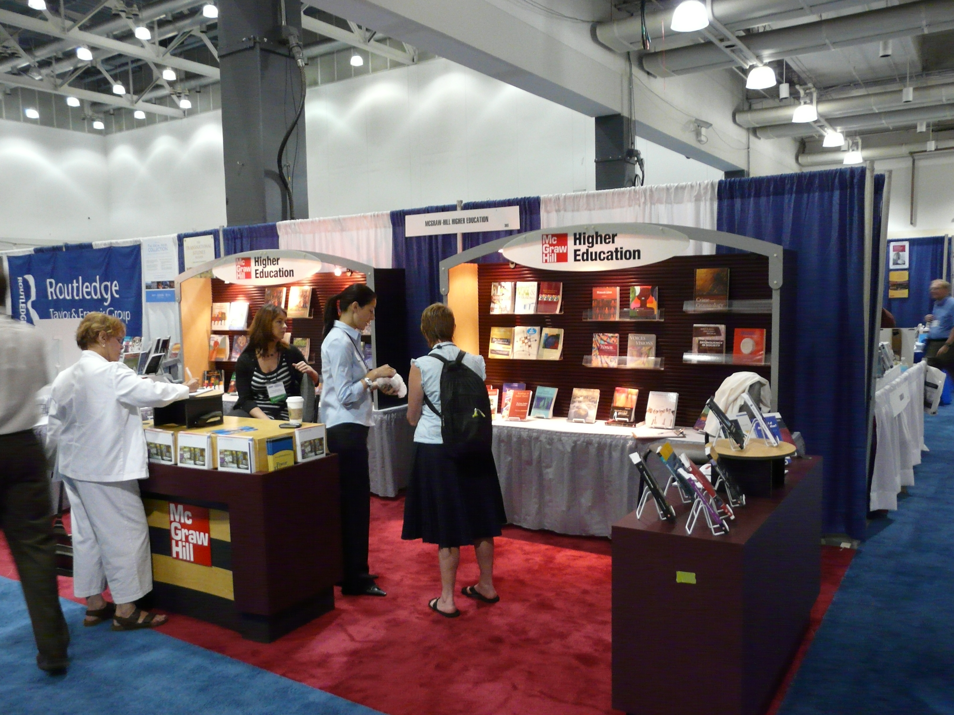 Boston. American Sociological Association conference.